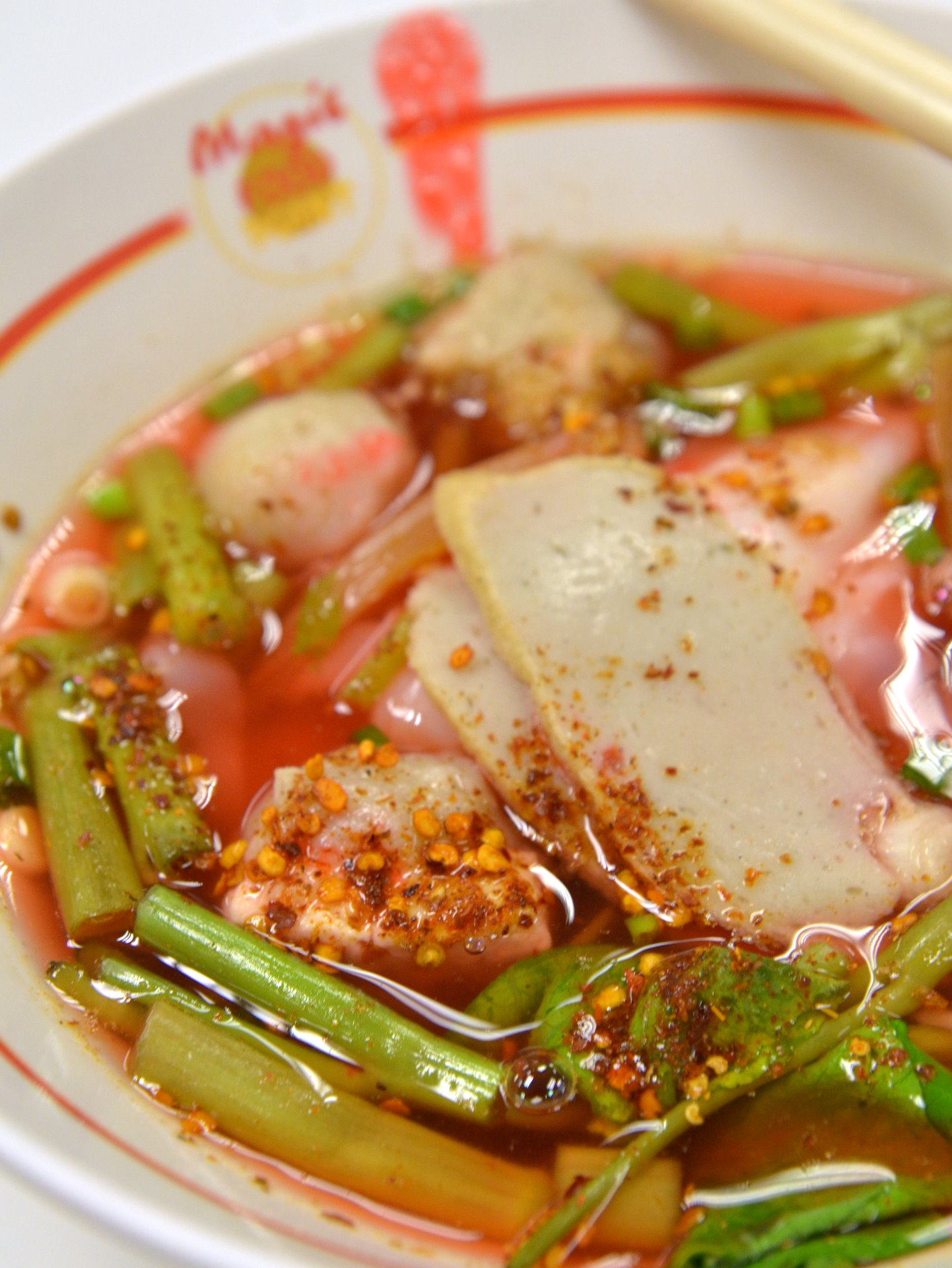 Yen tafo (Thai script: เย็นตาโฟ) is the Thai version of the Chinese dish Yong tau foo. Yen tafo is a clear broth with, usually, very silky wide rice noodles, fish balls, sliced fried tofu, squid, and phak bung (also known as "morning glory" or "water spinach"). The pink colour comes from the special sauce made from preserved red bean curd and/or tomato ketchup. The dish is mildly sweet, salty and sour.